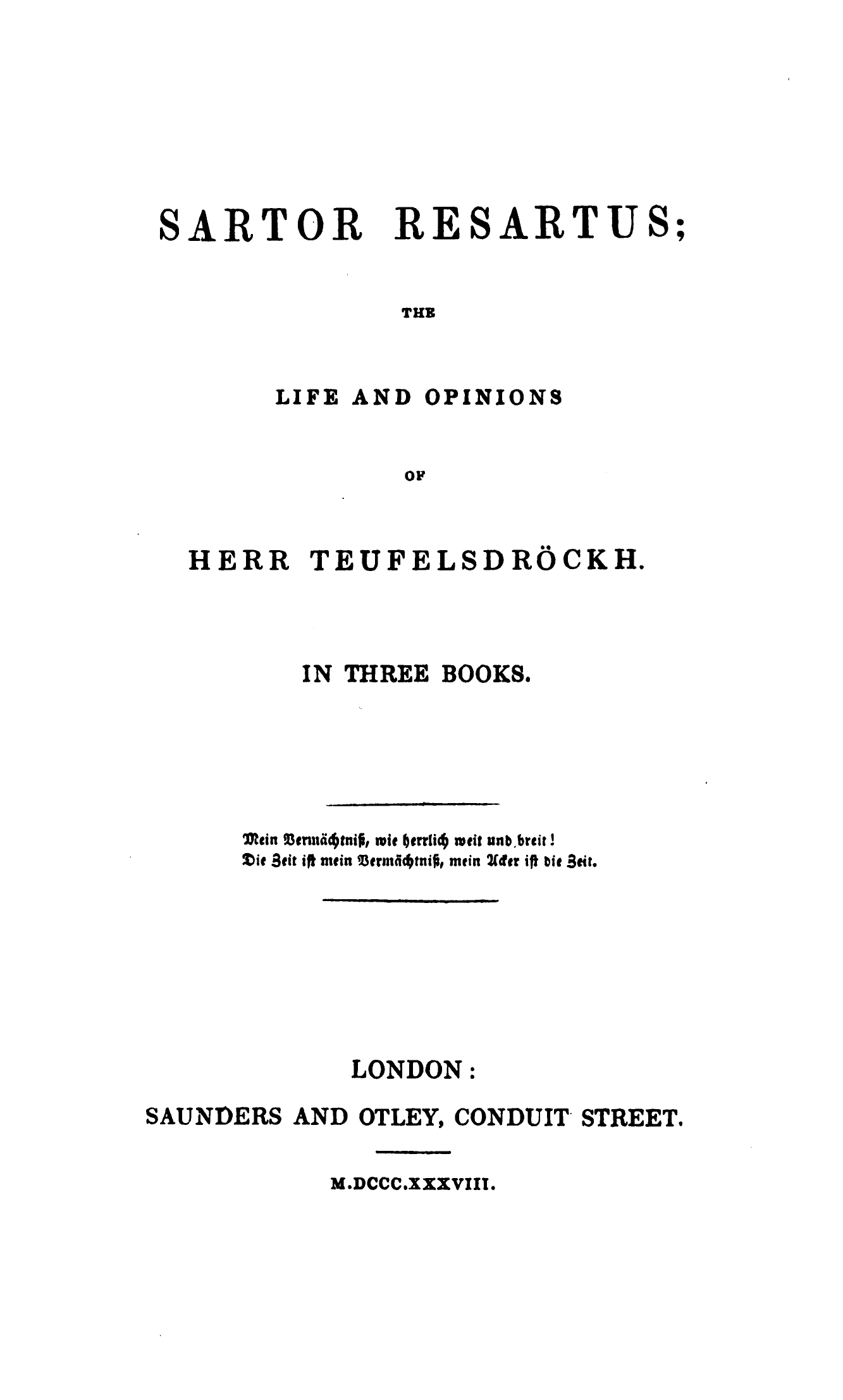 Title-page of the first british edition of "Sartor Resartus" by Thomas Carlyle (1838).